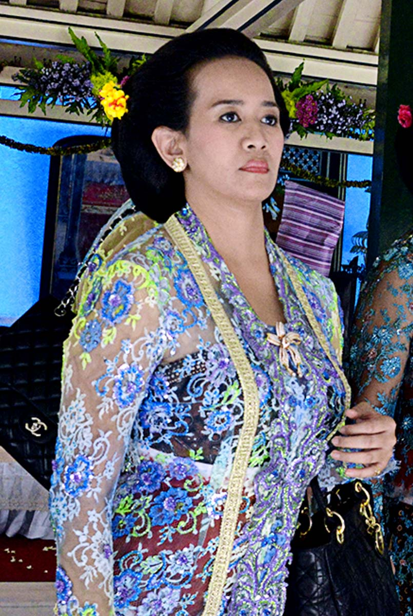 Her Royal Highness Princess Condrokirono of Yogyakarta